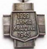 AK Cross